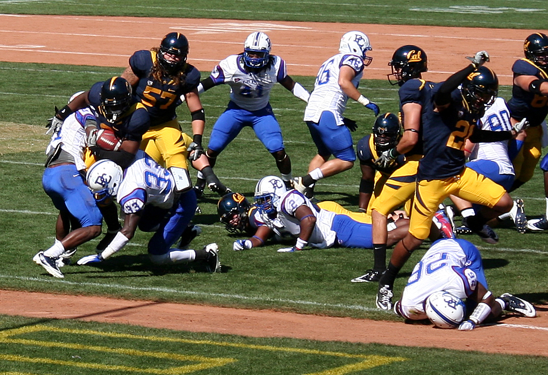 IMG_2217 California Golden Bears vs. Presbyterian Blue Hose at AT&T Park, September 17, 2011.